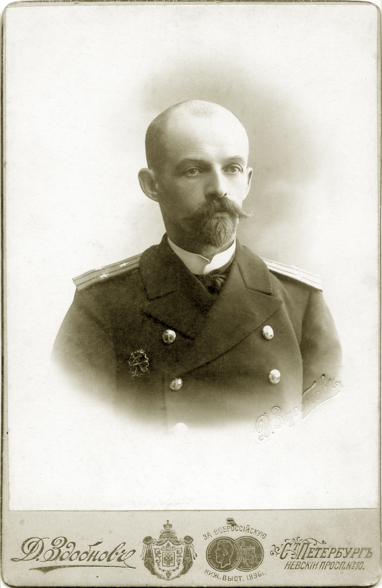 Admiral Koerber Ludwig